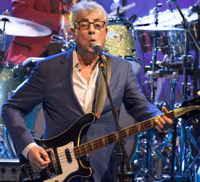 Ringo Starr & His All Starr Band